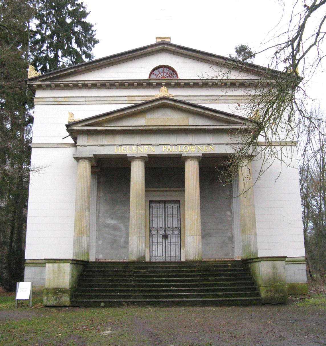 Mausoleum of Helena Paulowna in the park of Ludwigslust castle, Germany